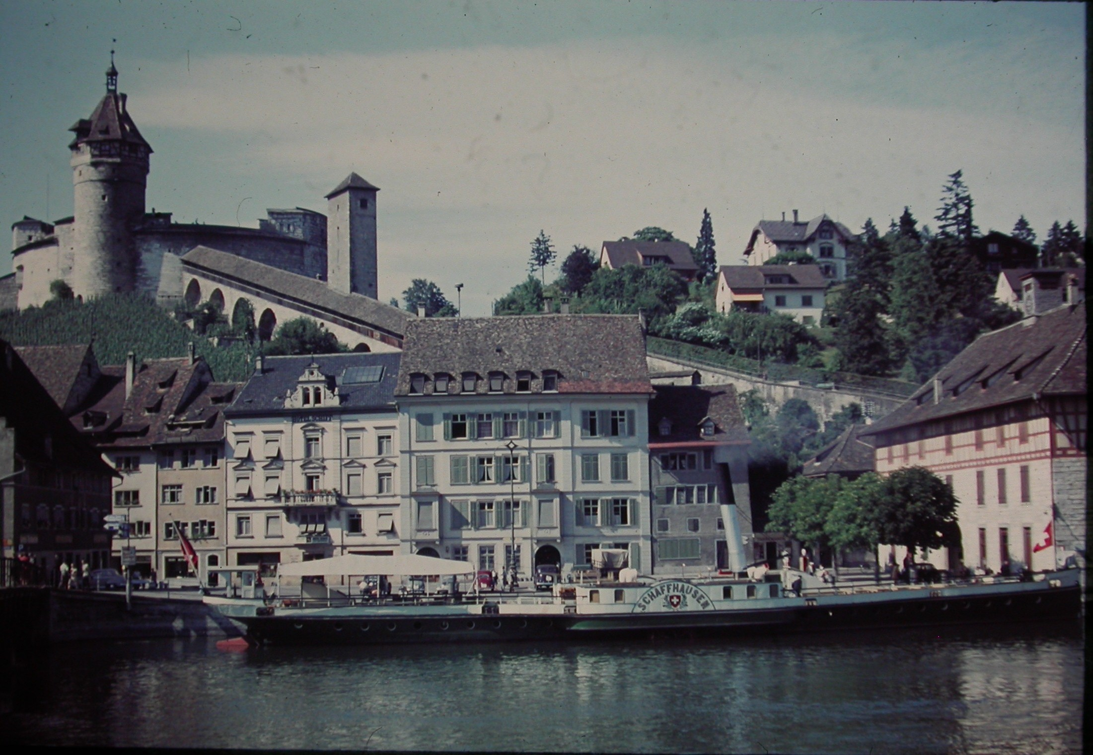 1952 Schaffhausen